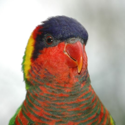 Ornate Lorikeet at Nashville Zoo, USA. Photograph shows upper body.